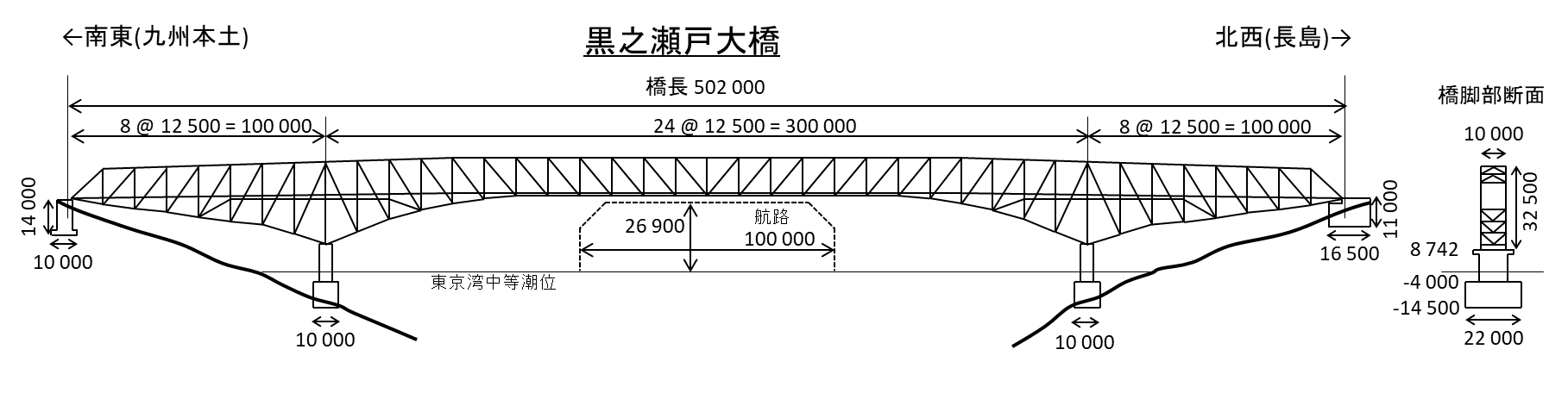 Figure describing size of Kuronoseto bridge, which connects Akune, Kagoshima and Nagashima, Kagoshima in Japan.